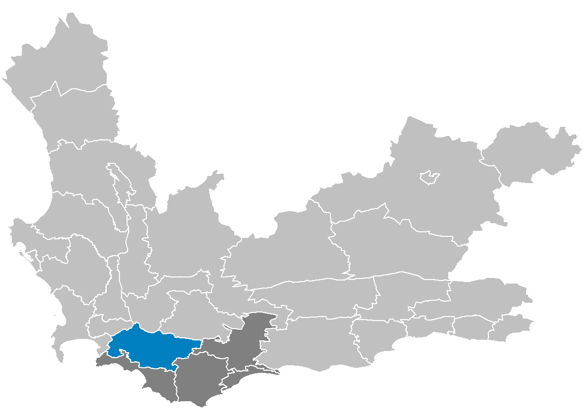 Map showing the Theewaterskloof Local Municipality, within the Overberg District Municipality, within the Western Cape.